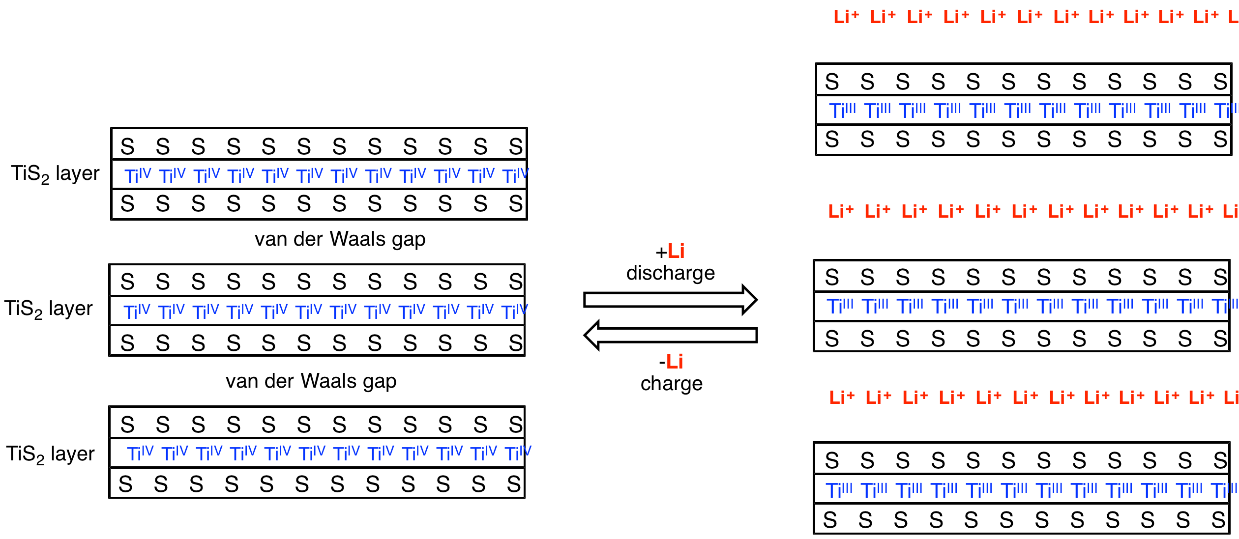 cartoon for intercalation of Li into TiS2 cathode